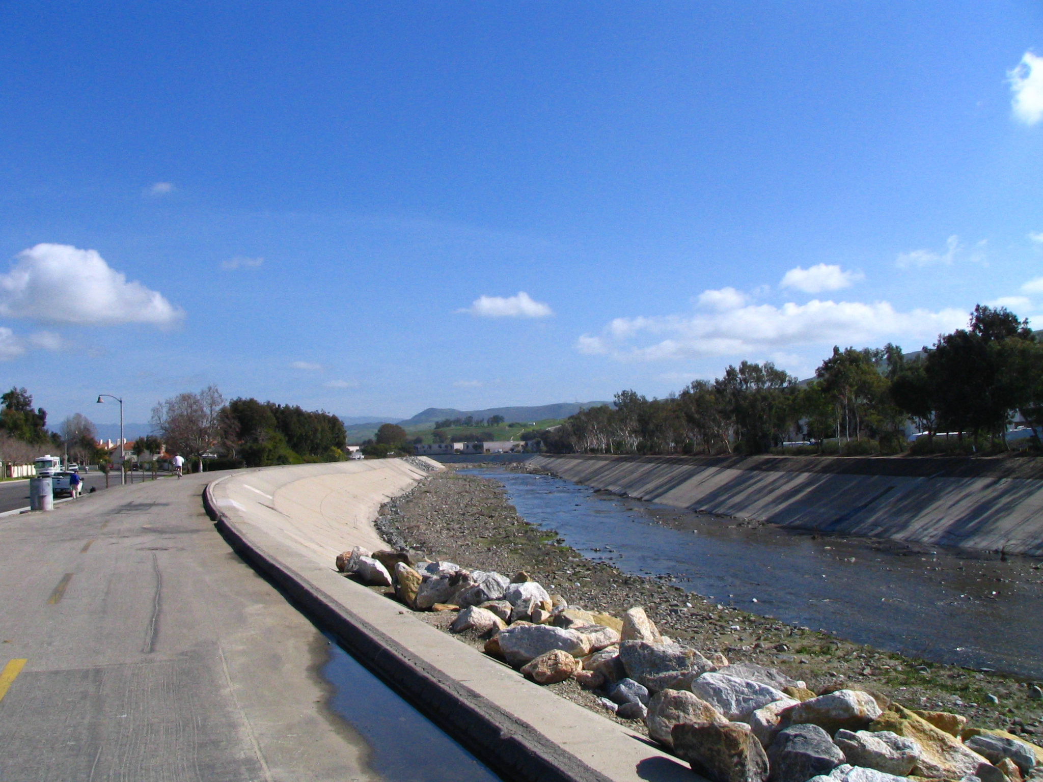 San Juan Creek in San Juan Capistrano after a light winter rain.